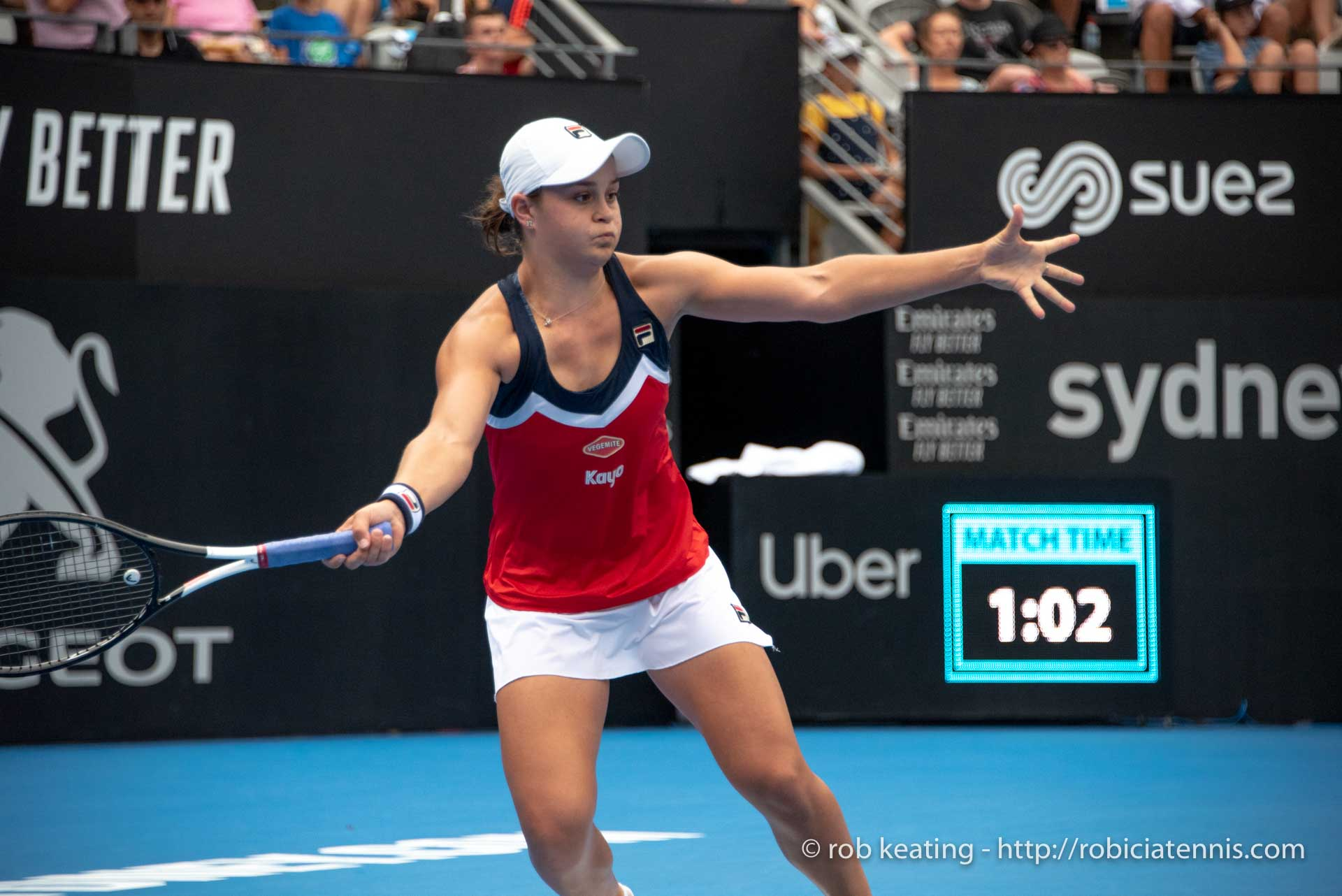 Sydney, Australia - 11 January 2019: Ashleigh Barty during the Sydney International singles semifinal match against Kiki Bertens on Ken Rosewall Arena at Sydney Olympic Park. (Photo by Rob Keating/robiciatennis.com)